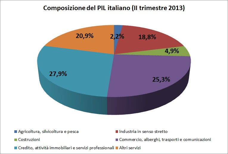 Sectorial composition of the italian GDP in the fourth quarter of 2010